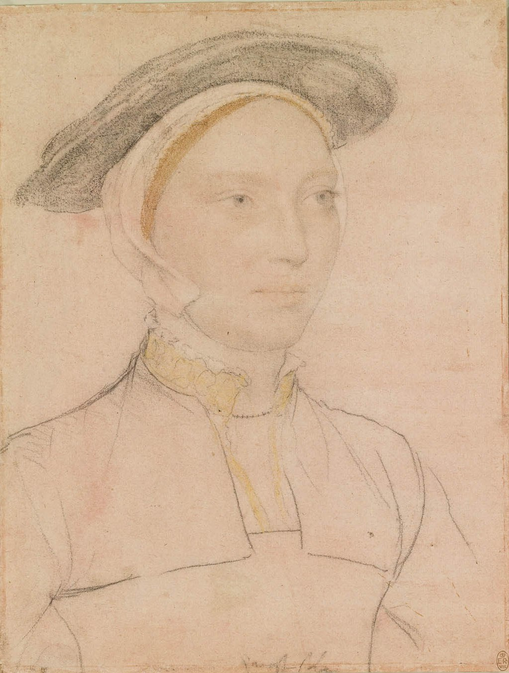 Portrait of an Unknown Lady, probably English. The face is considerably worn by rubbing; the insensitive lines of the spencer (jacket) are by later hands (Parker, p. 49). Holbein has noted "damast sh" (black damask) at the bottom of the sheet.